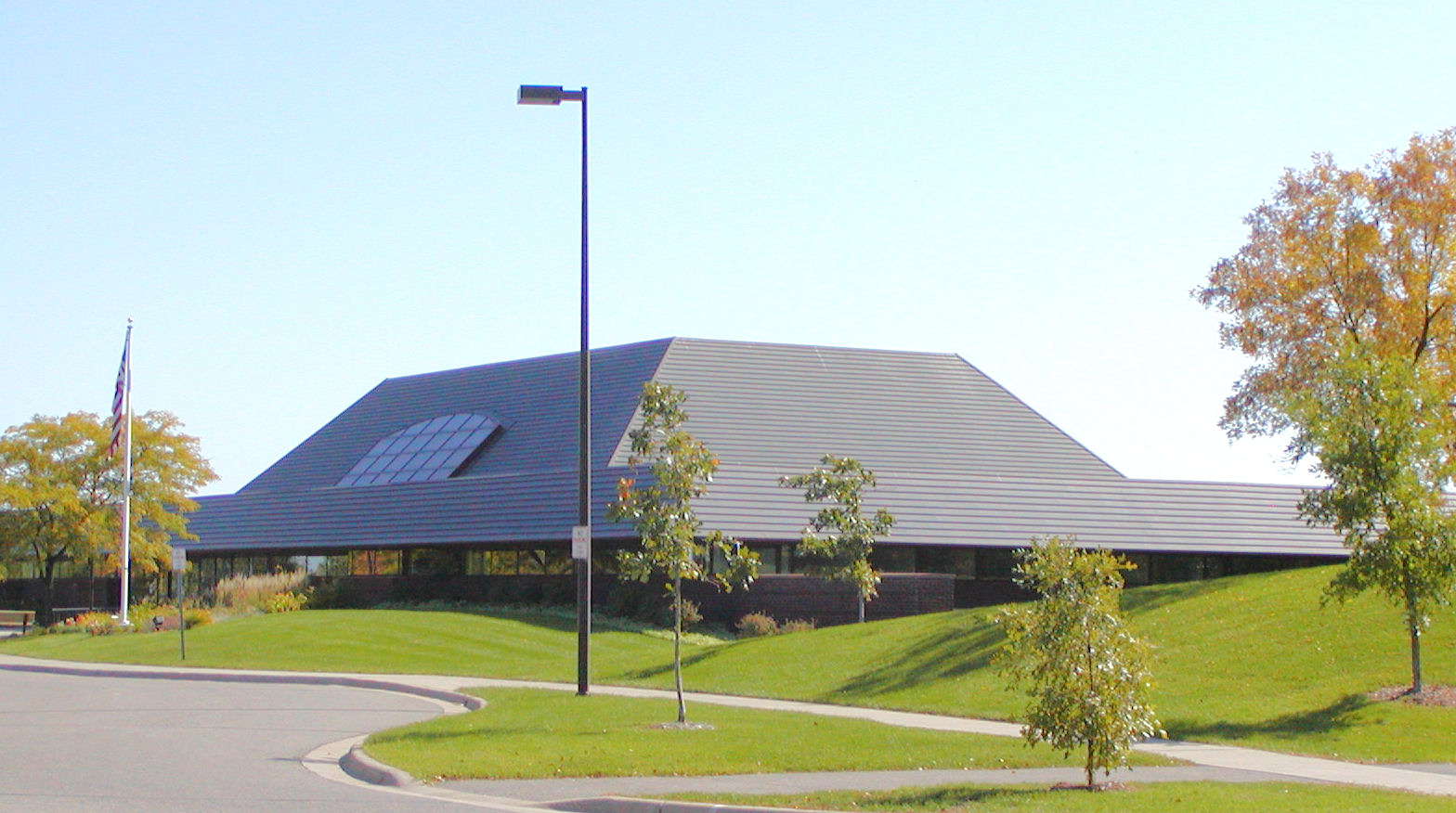 taken by William Wesen 10/01/2006